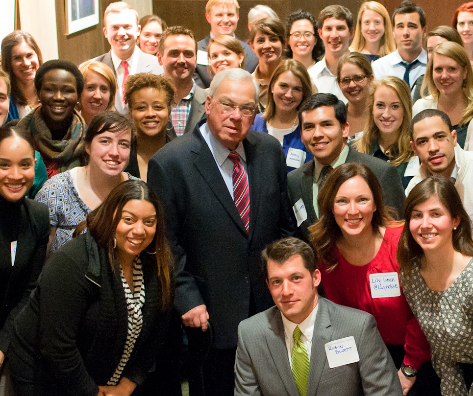 Mayor Menino in March of 2013, shortly before announcing that he would not be seeking reelection